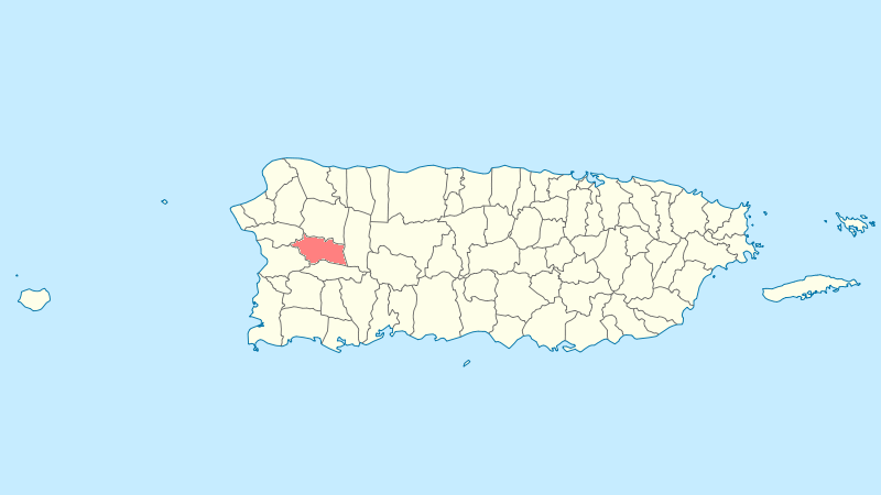 Municipal locator of Puerto Rico